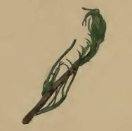 Stainton’s Natural History of the Tineina (1855–1873): Depressaria artemisiae an apical shoot of Artemisia campestris inhabited by larva